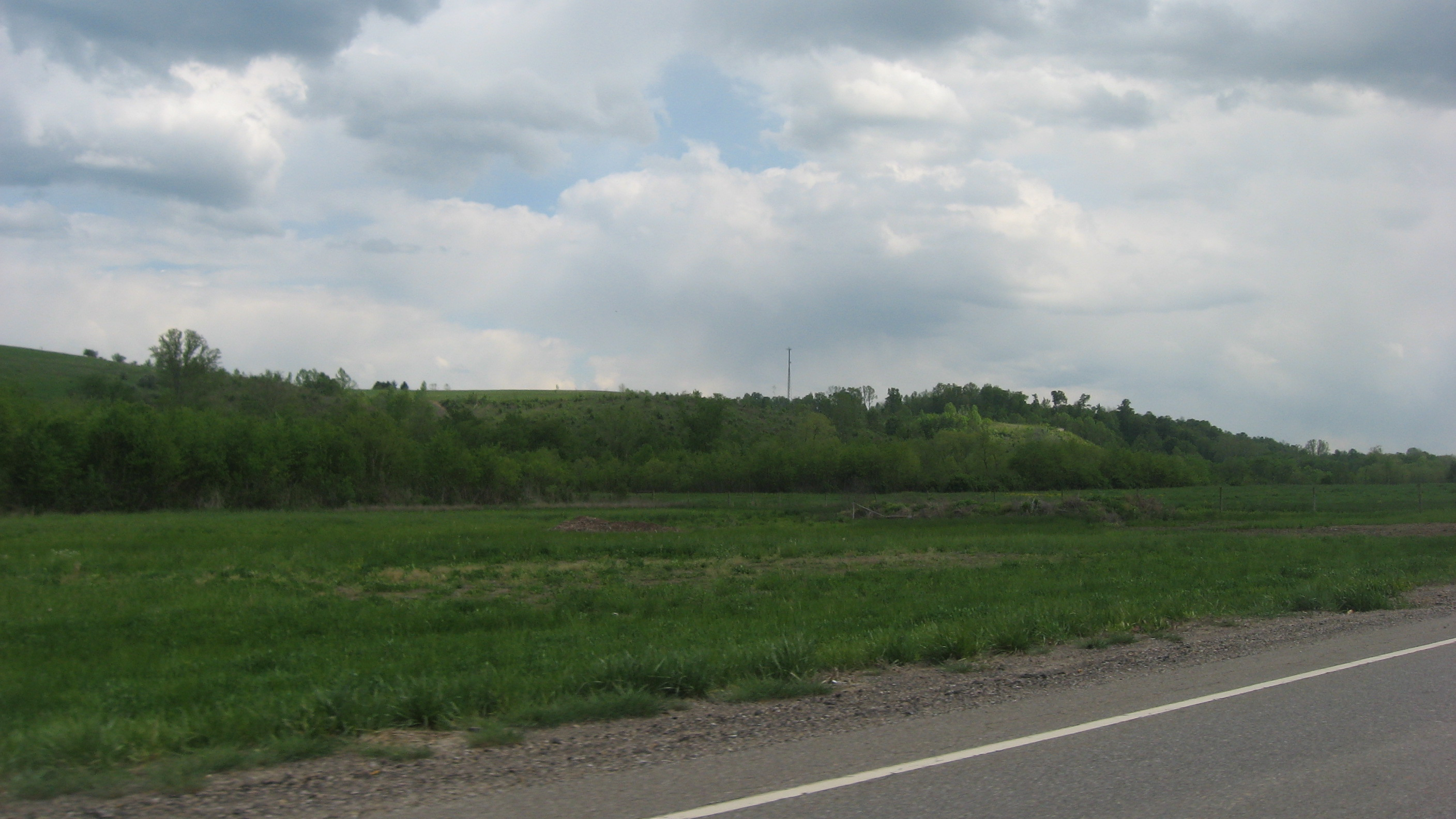 Fields and hills along Moxahala Creek south of Crooksville in northern Bearfield Township, Perry County, Ohio, United States. The scene is immediately south of the Township Road 402 intersection, and the picture is taken from a southbound car on State Route 93.